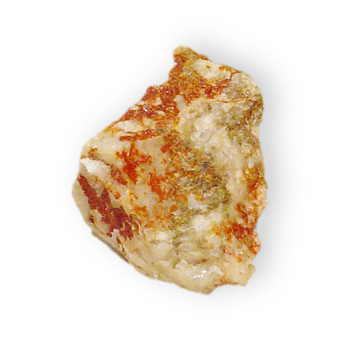 These mineral images are free to use how you wish.